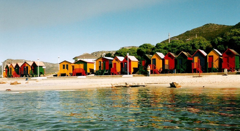 The colourful houses at St. James tidal pool and beach.